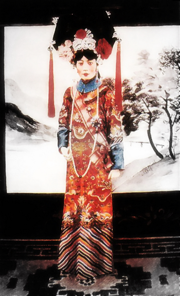 Photograph of the Qing Dynasty Empress Gobele Wan-Rong of XuanTong.